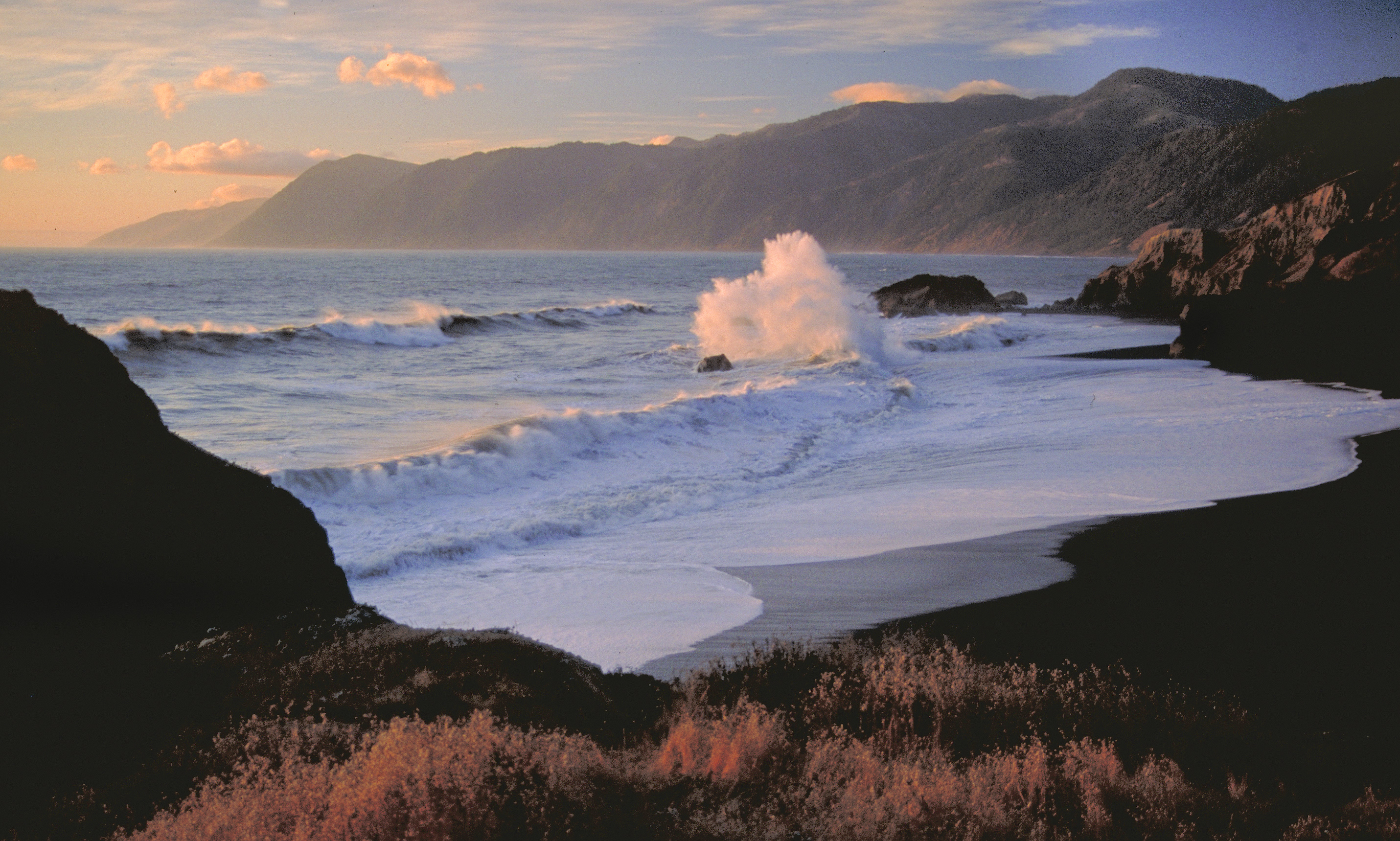 A spectacular meeting of land and sea is certainly the dominant feature of King Range National Conservation Area. Mountains seem to thrust straight out of the surf; a precipitous rise rarely surpassed on the continental U.S. coastline. King Peak, the highest point at 4,088 feet, is only three miles from the ocean. The King Range NCA covers 68,000 acres and extends along 35 miles of coastline between the mouth of the Mattole River and Sinkyone Wilderness State Park. Here the landscape was too rugged for highway building, forcing State Highway 1 and U.S. 101 inland. The remote region is known as California's Lost Coast, and is only accessed by a few back roads. The recreation opportunities here are as diverse as the landscape. The Douglas-fir peaks attract hikers, hunters, campers and mushroom collectors, while the coast beckons to surfers, anglers, beachcombers, and abalone divers to name a few. For more information visit: Photos/Videos: Bob Wick, BLM